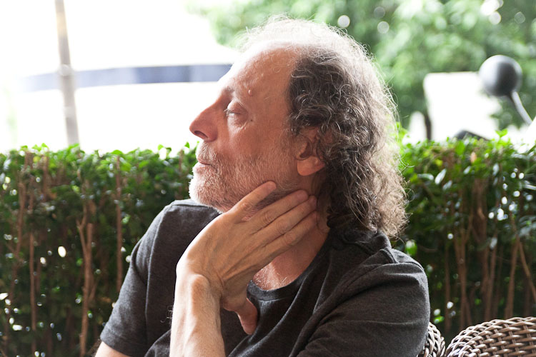 Brazilian composer Eduardo Gudin